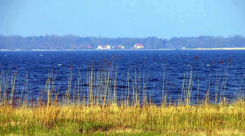 Kopice on Szczecin Lagoon, West Pomeranian Voivodeship, Poland